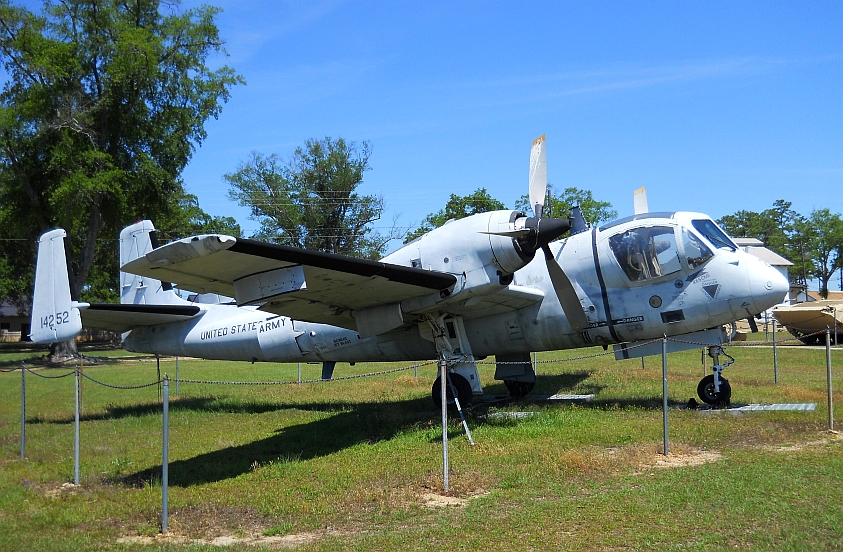 Mohawk OV1 Observation Aircraft on display at Mississippi Armed Forces Museum, Camp Shelby, Forrest County, Mississippi, USA